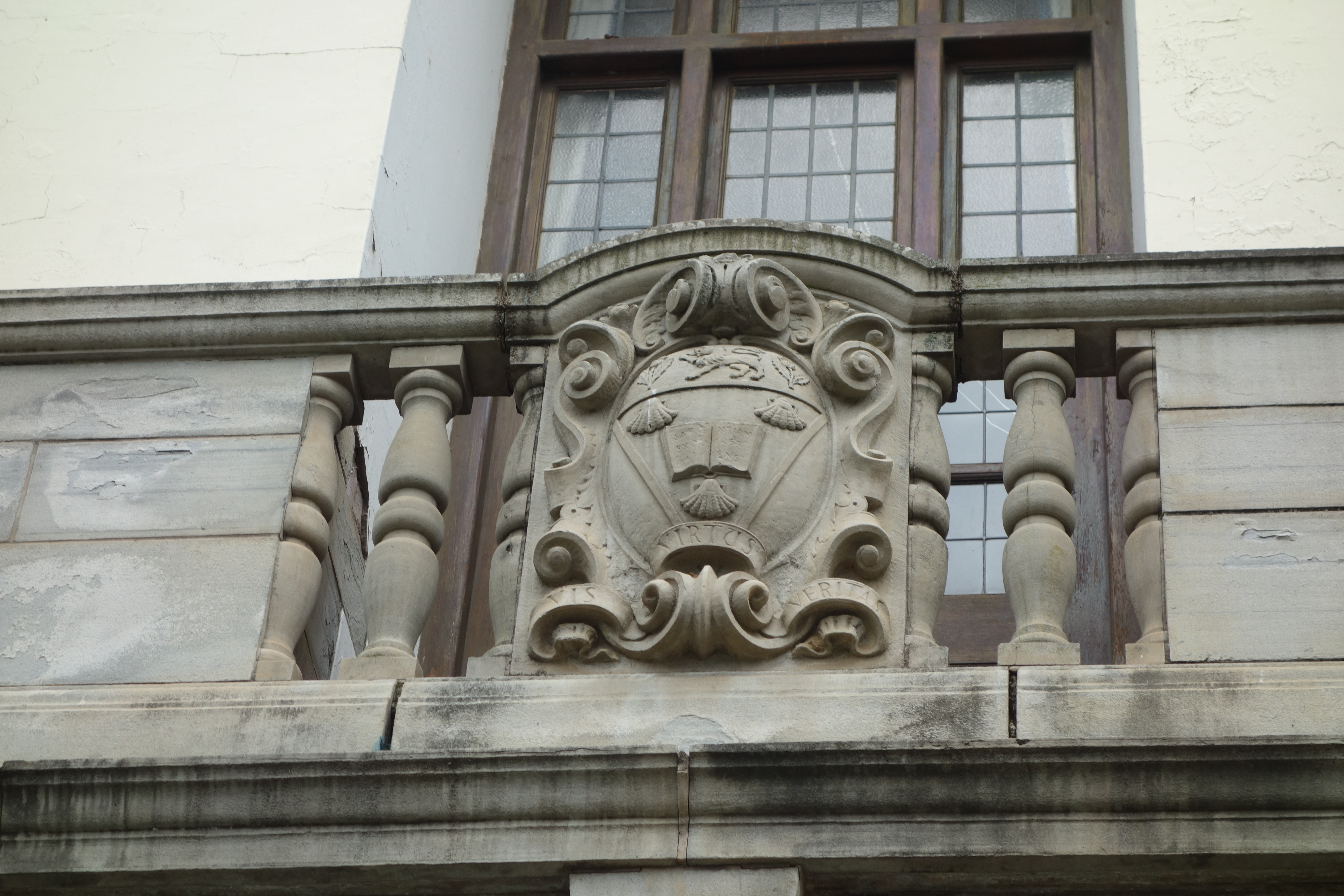 Entrance of Rhodes University, Grahamstown (South Africa). Motto: Vis, Virtus, Veritas (Strength, Courage, Truth)